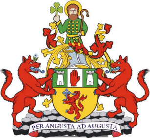 Coat of arms of Antrim County CouncilEuskara: Antrim Irlandako udaleko armarria. Latinezko esaldiak aldarrikatzen du enperadoreen ate nagusitik igarotzeko, aurretik ate estuagoetatik igaro behar dela.